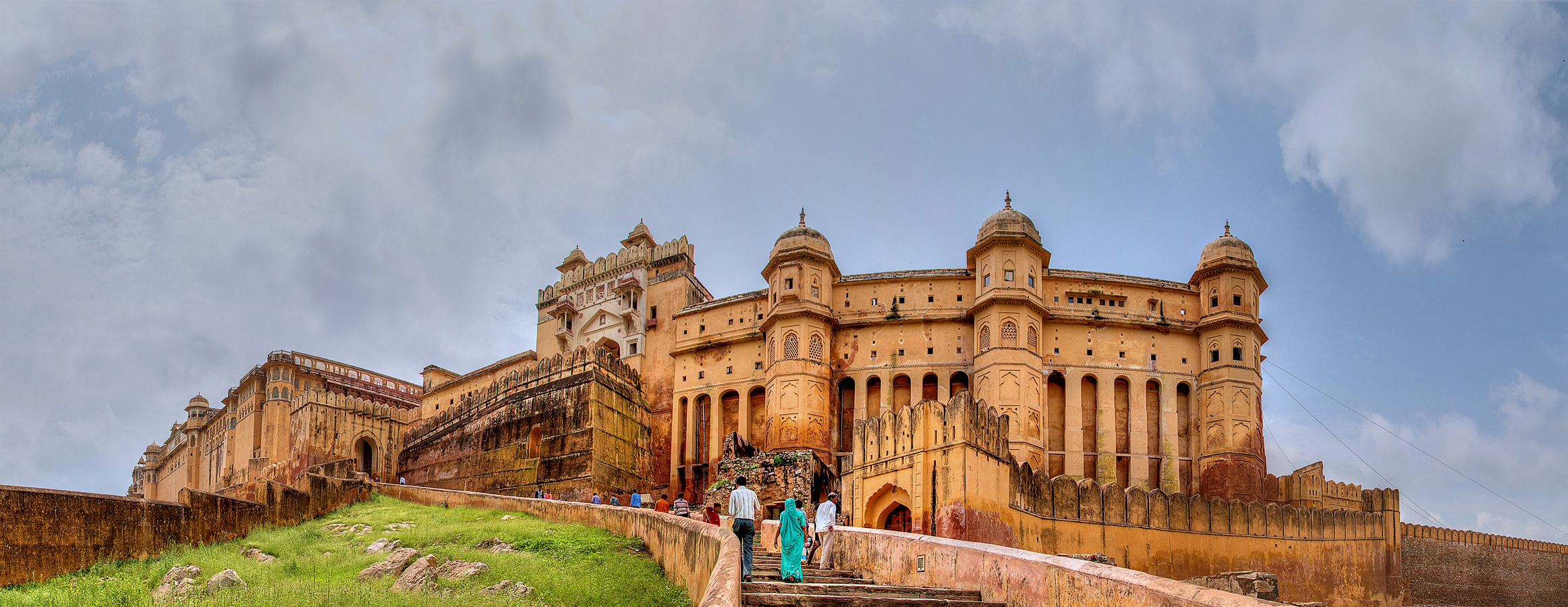 Amer Fort is known for its artistic style of Hindu elements. With its large ramparts, series of gates and cobbled paths, the fort overlooks the Maota Lake, at its forefront